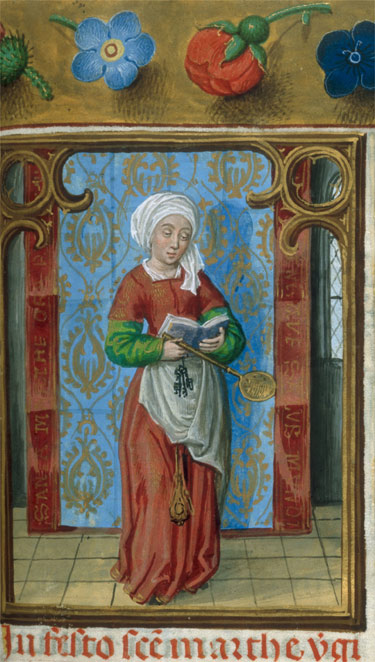 Saint Martha, in a Flemish illumination from the Isabella Breviary, 1497.